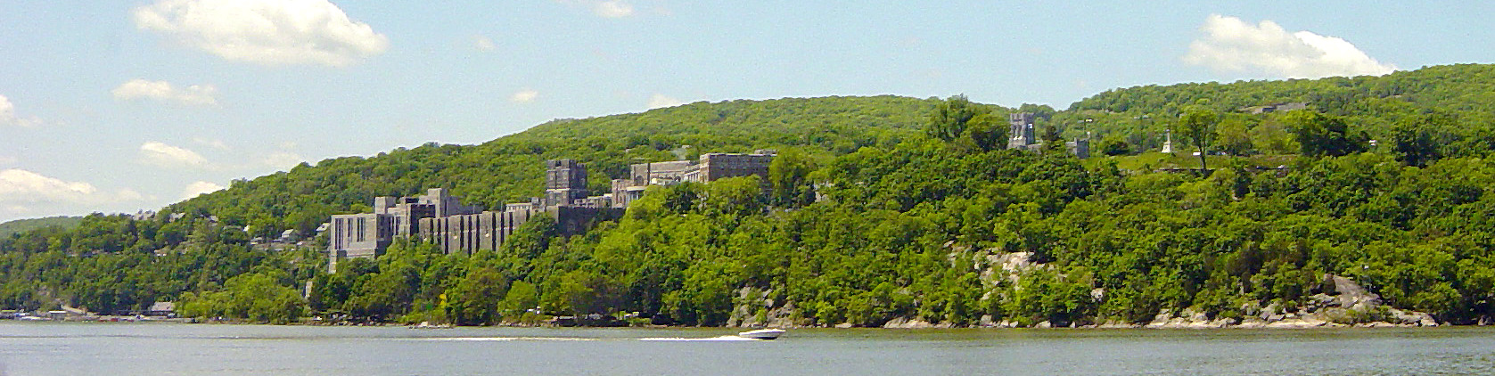 West Point Military Acadamy from across the Hudson River